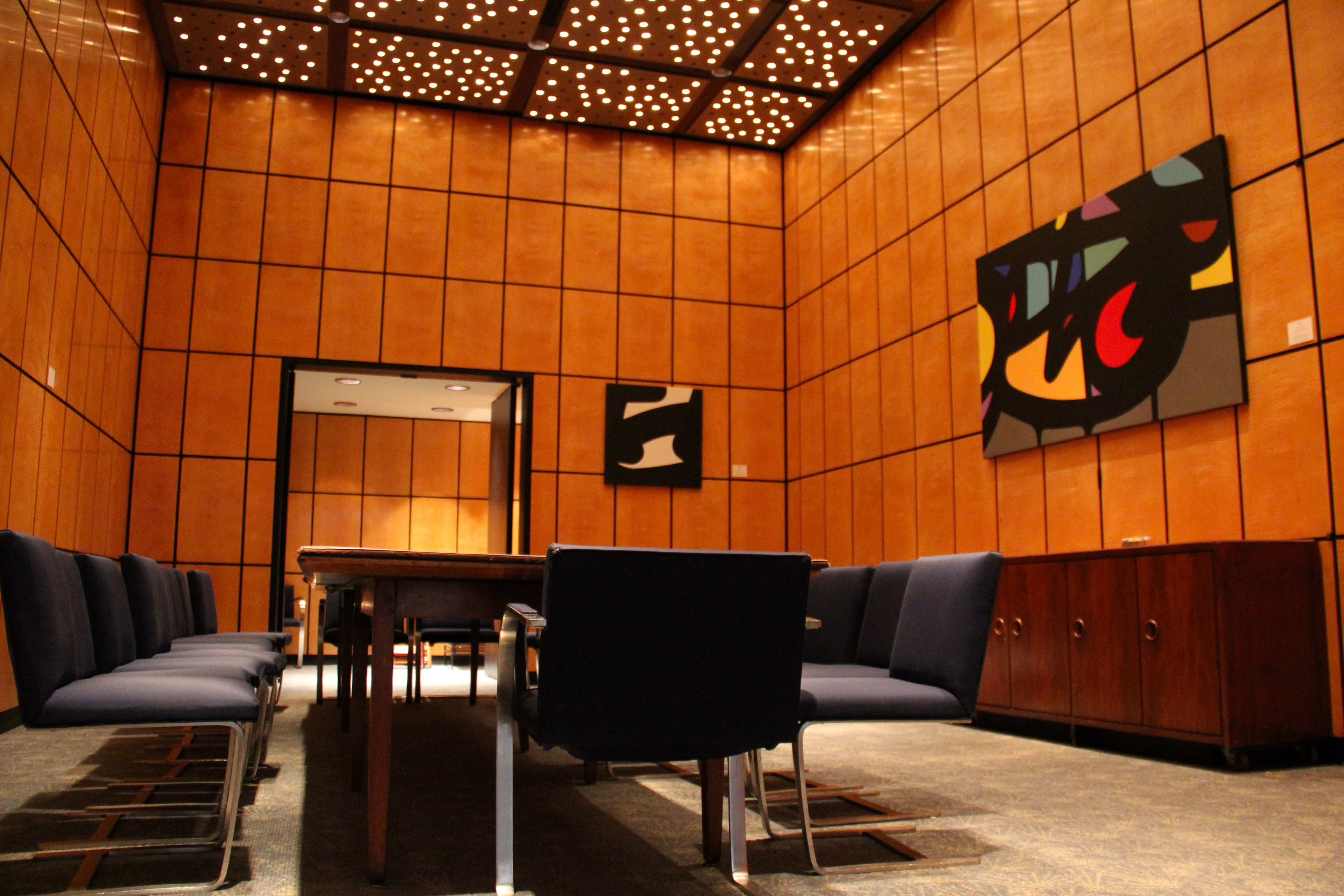 The Four Seasons Restaurant - Private dining room Site: The Four Seasons Restaurant